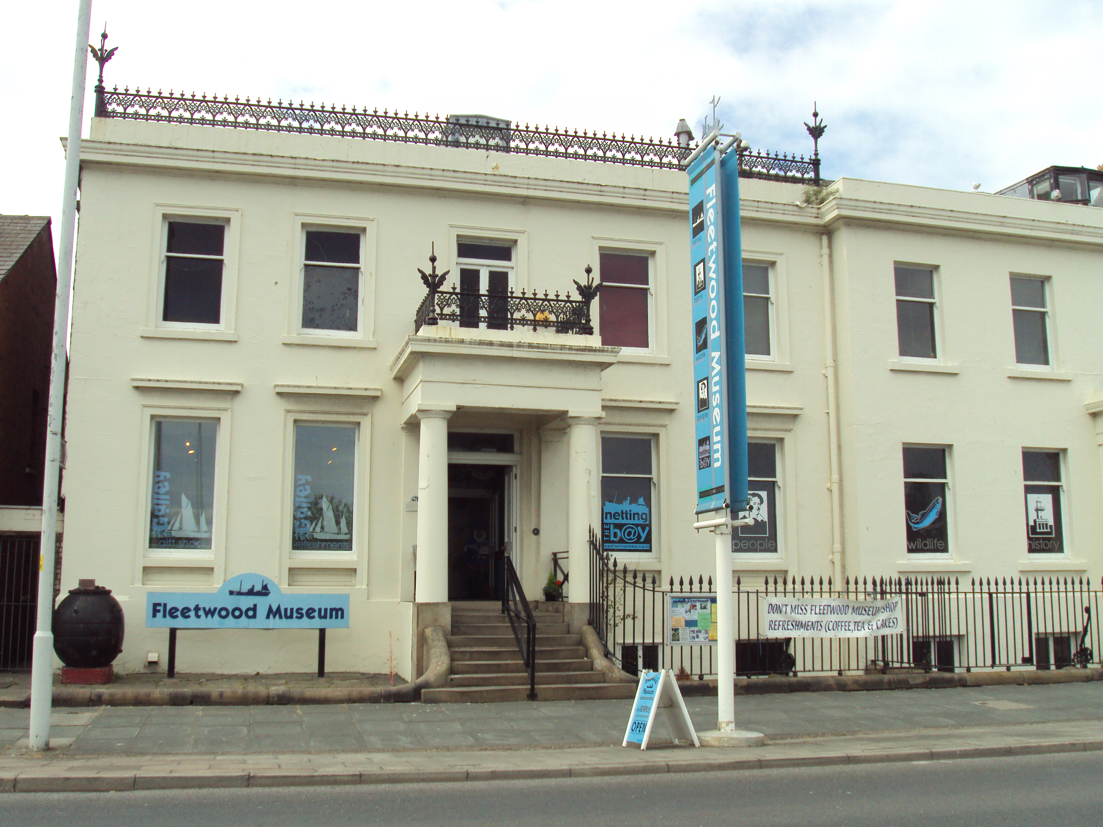 Fleetwood Museum, Queen's Terrace, Fleetwood, Lancashire, England.